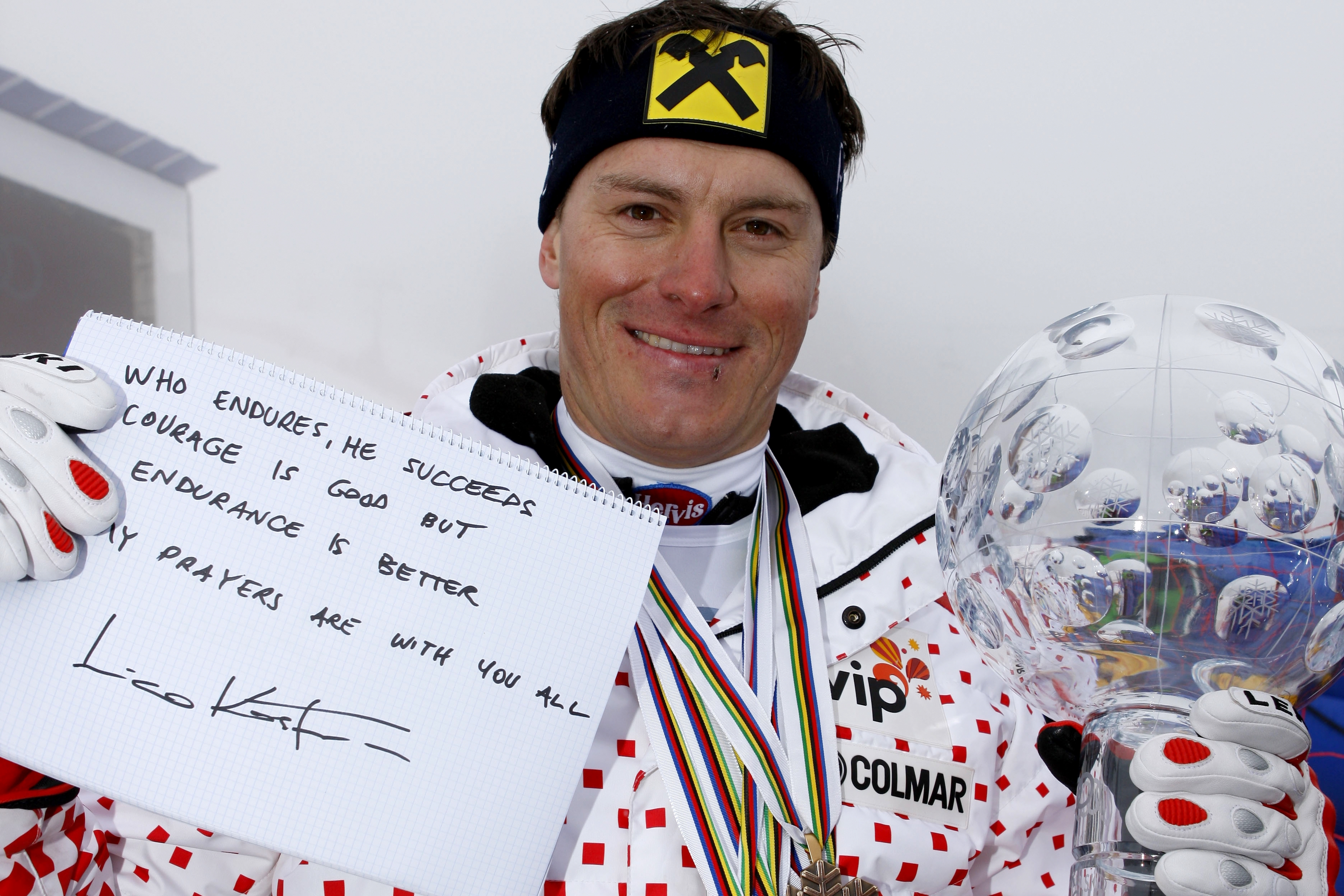 Ivica Kostelić with the trophy and a message to Japan at the 2011 Alpine Skiing World Cup in Lenzerheide, Switzerland.